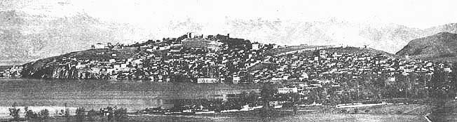 Ohrid at the Dawn of the 20th century